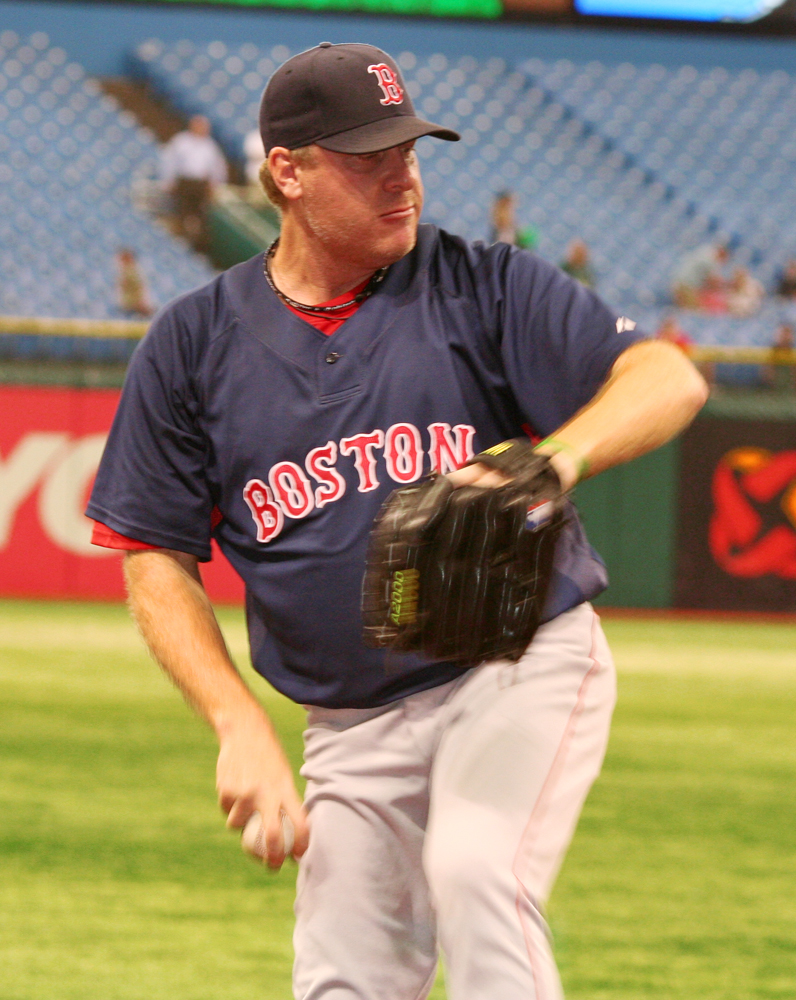 Photograph taken by Googie Man. 13:24, 25 October 2007 . . Googie man . . 796×1000 (664 KB)